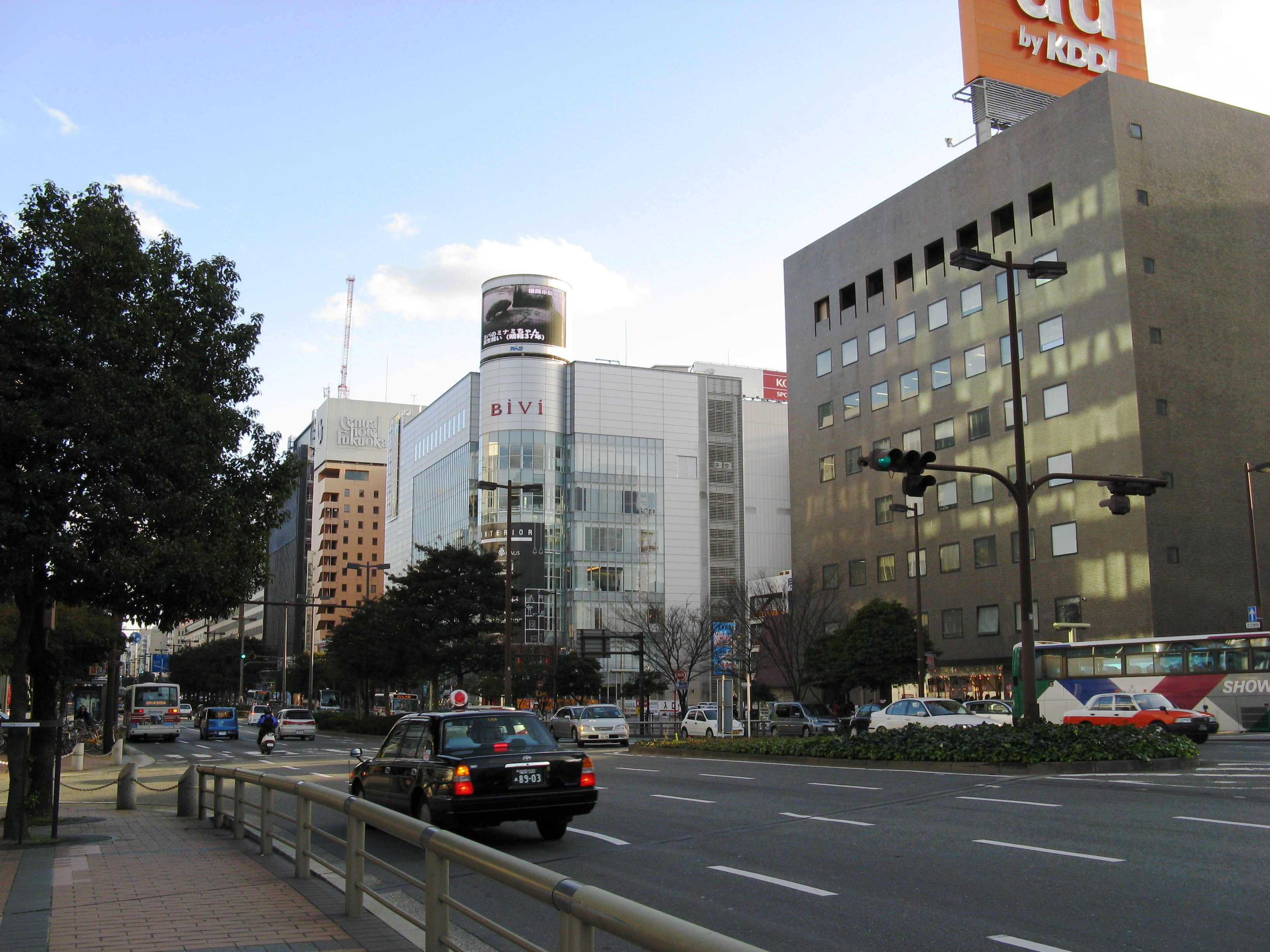 Watanabe-dori, one of the streets of Fukuoka